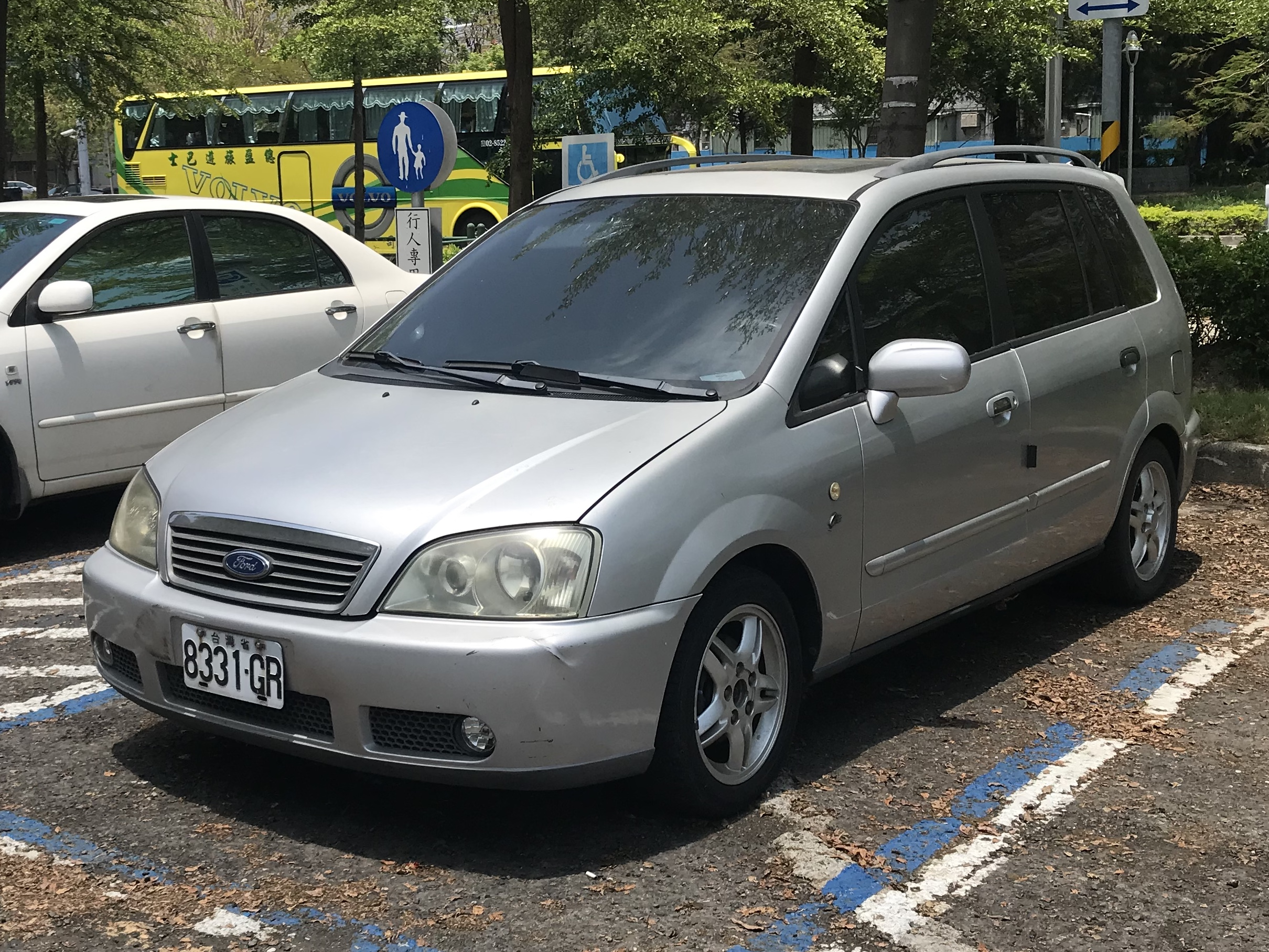 Ford Ixion (MAV) front